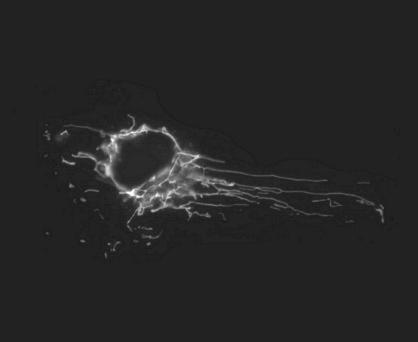 Light microscope image on mitochondria in cell This is an image of a cultured human endothelial cell taken by myself (David Hackos) using a fluorescence microscope. It is stained with a fluorescent dye called MitoTracker Green FM, which selectively stains mitochondria. Cells were stained by incubating them at 37C for 30 min. with DPBS (Dulbeccos Phosphate Buffered Saline) containing 20nM MitoTraker Green FM